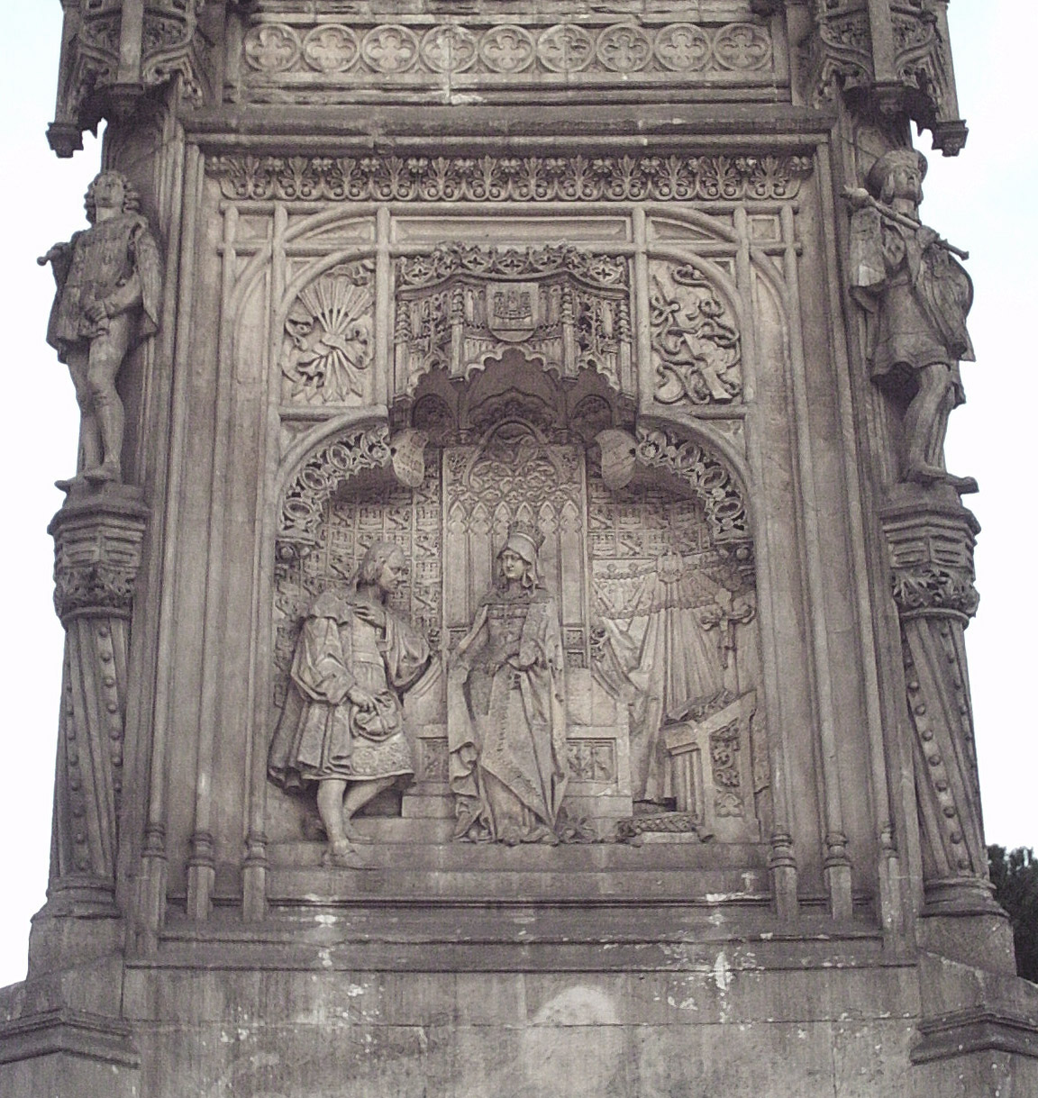 Detail of the monument to Christopher Colombus (1451?–1506) at the Plaza de Colón ("Columbus Square") in Madrid (Spain), built between 1881 and 1885. It's the western side of the square base, sculpted in stone in a Neo-gothic style by Arturo Mélida (1849–1902). Relief represents queen Isabella (centre) offering to pawn her jewels in aid of Columbus' (left) enterprise. At the right, a prayer kneeler with a crucifix. At the four corners of the base there are heralds below canopies.